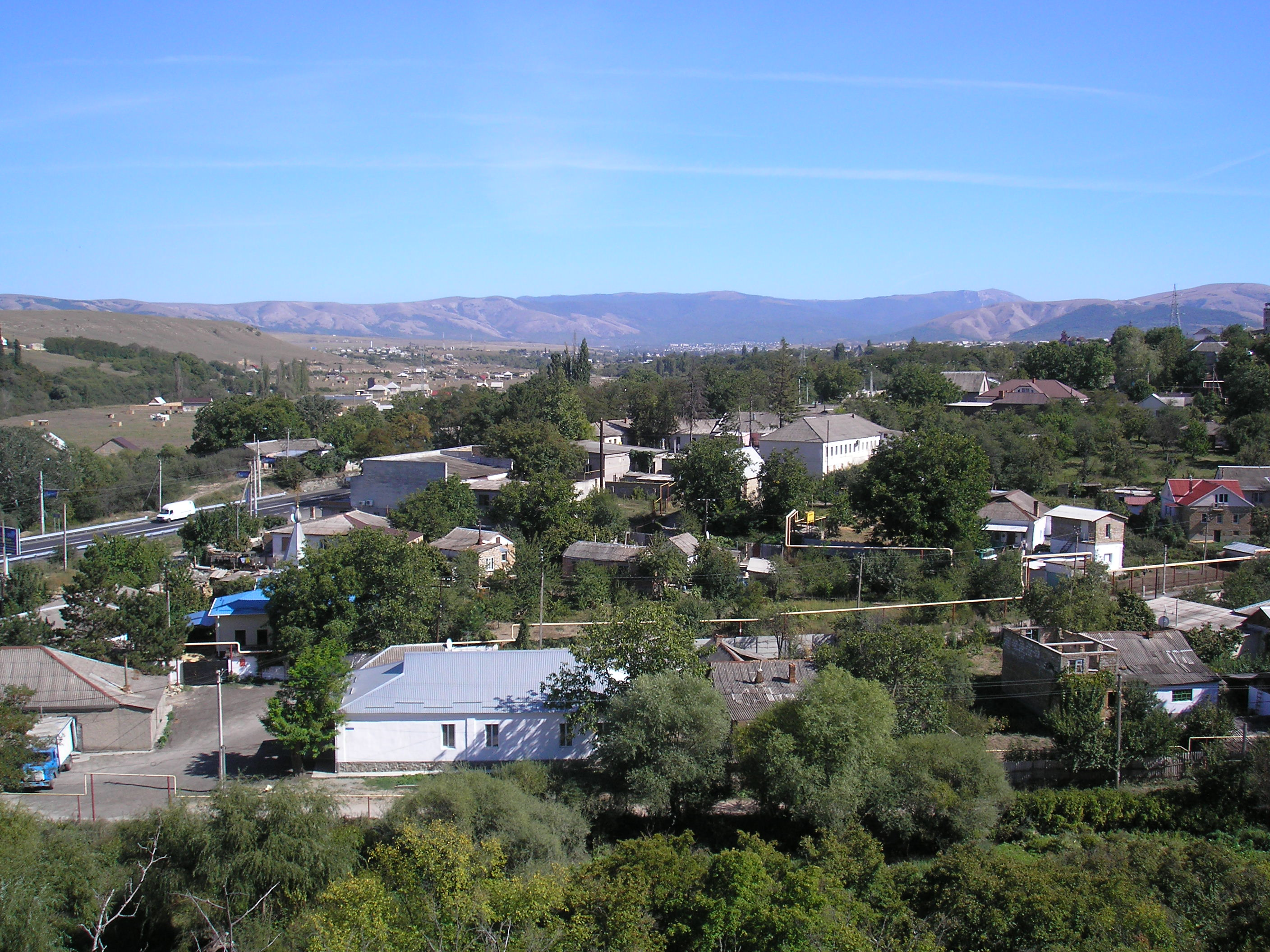 Village Pionerskoe, Simferopol district, Crimea